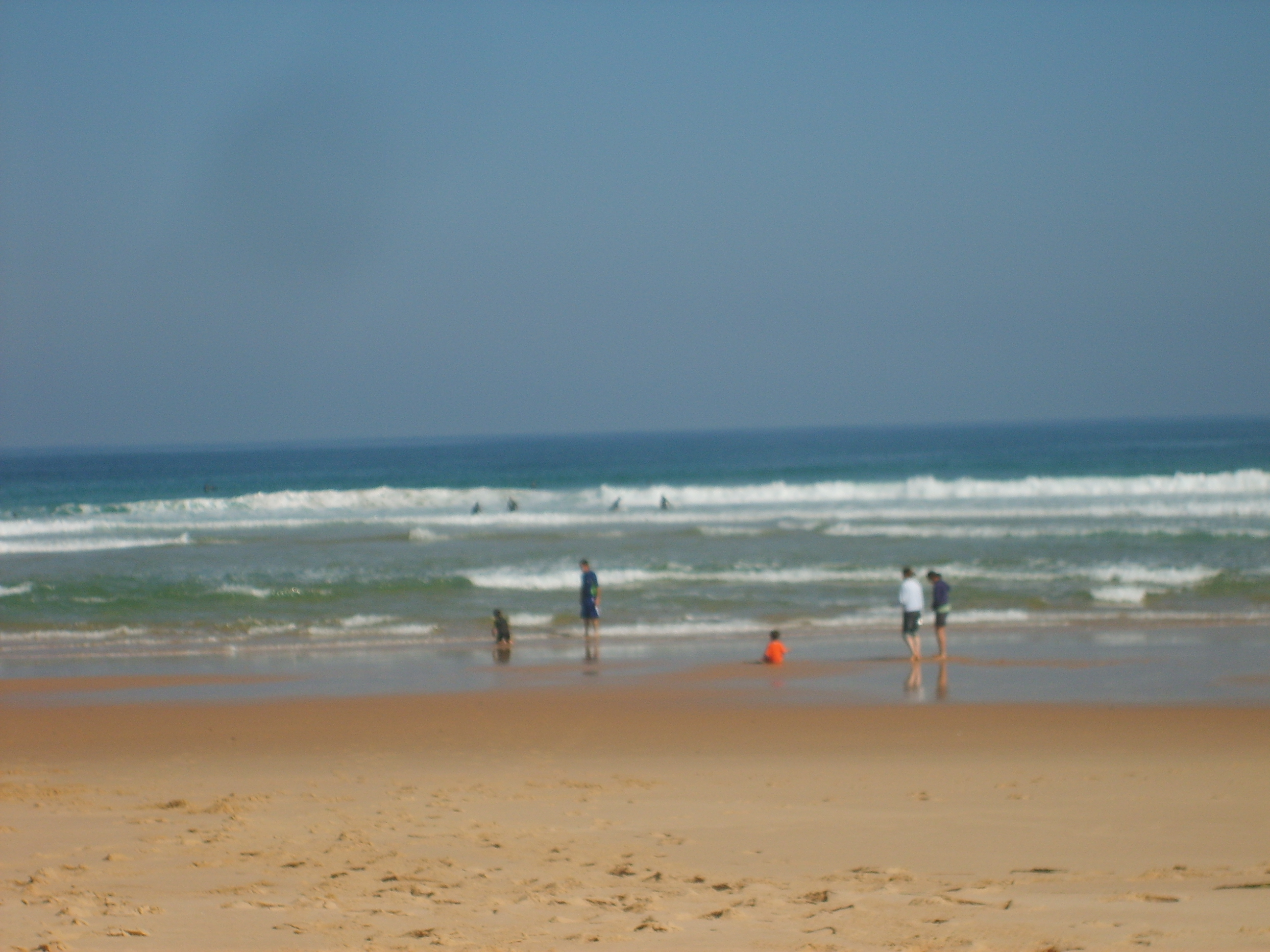 A beach